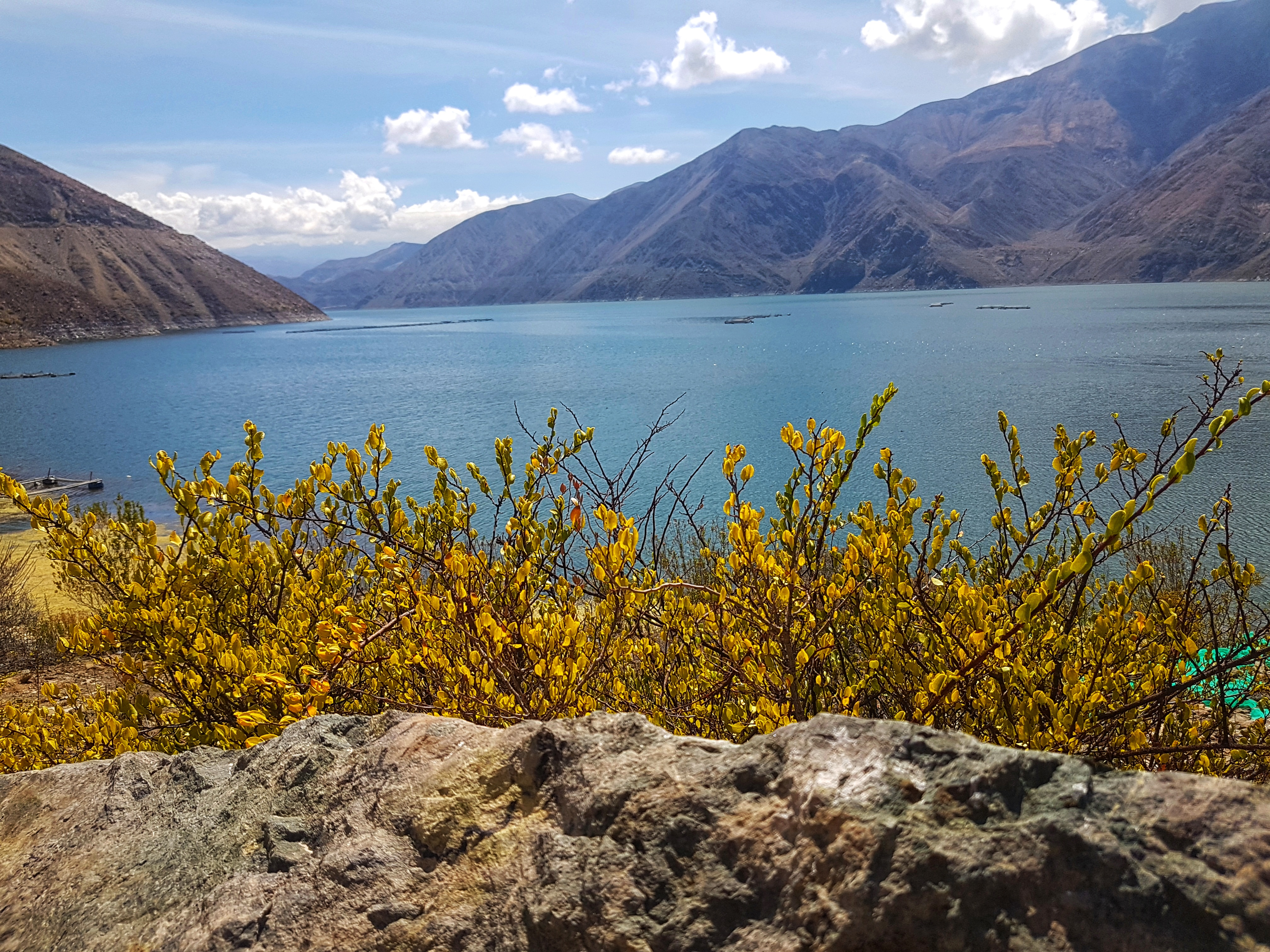 Aricota Lagoon